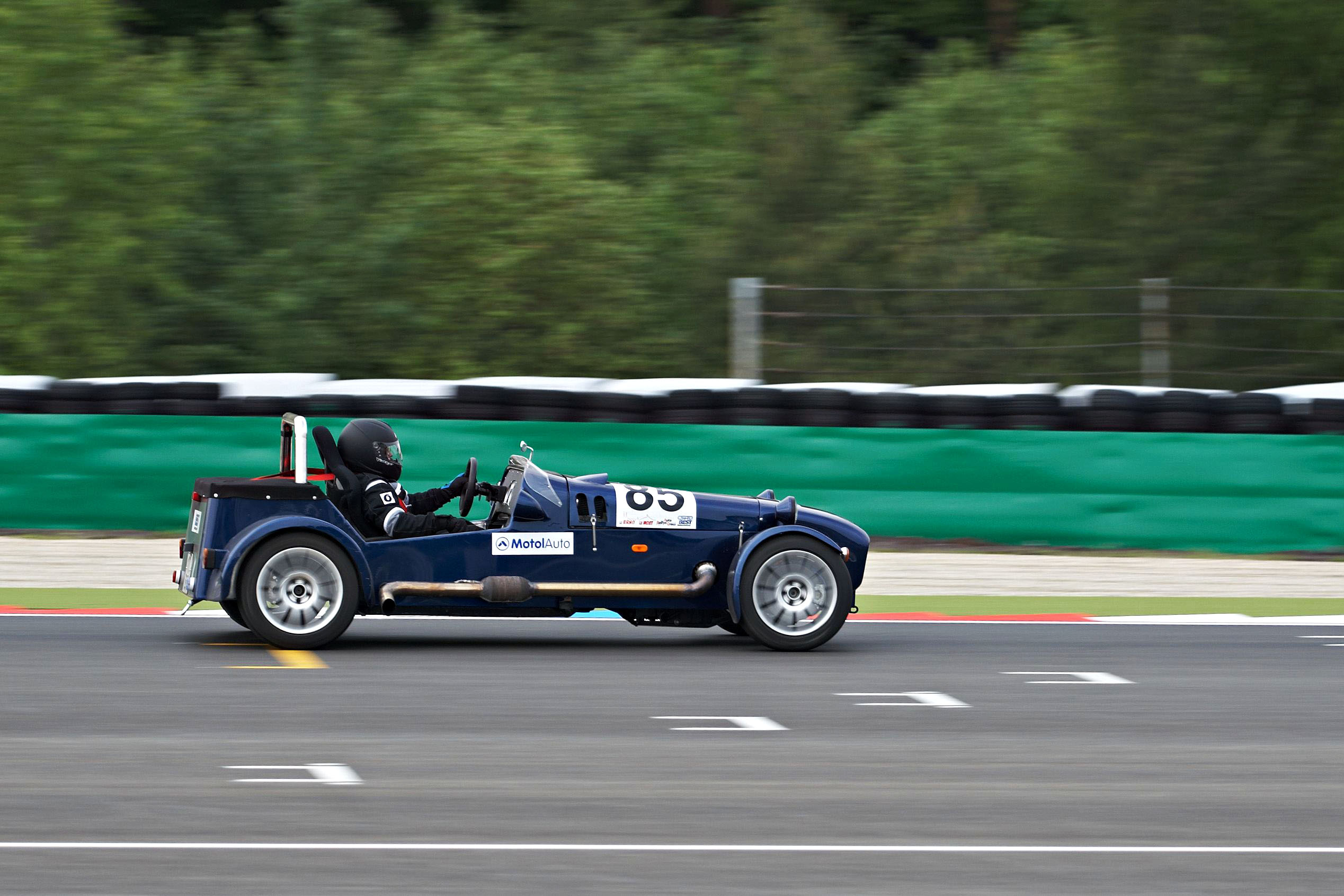 Kaipan 57 during 12h Le Brno race.